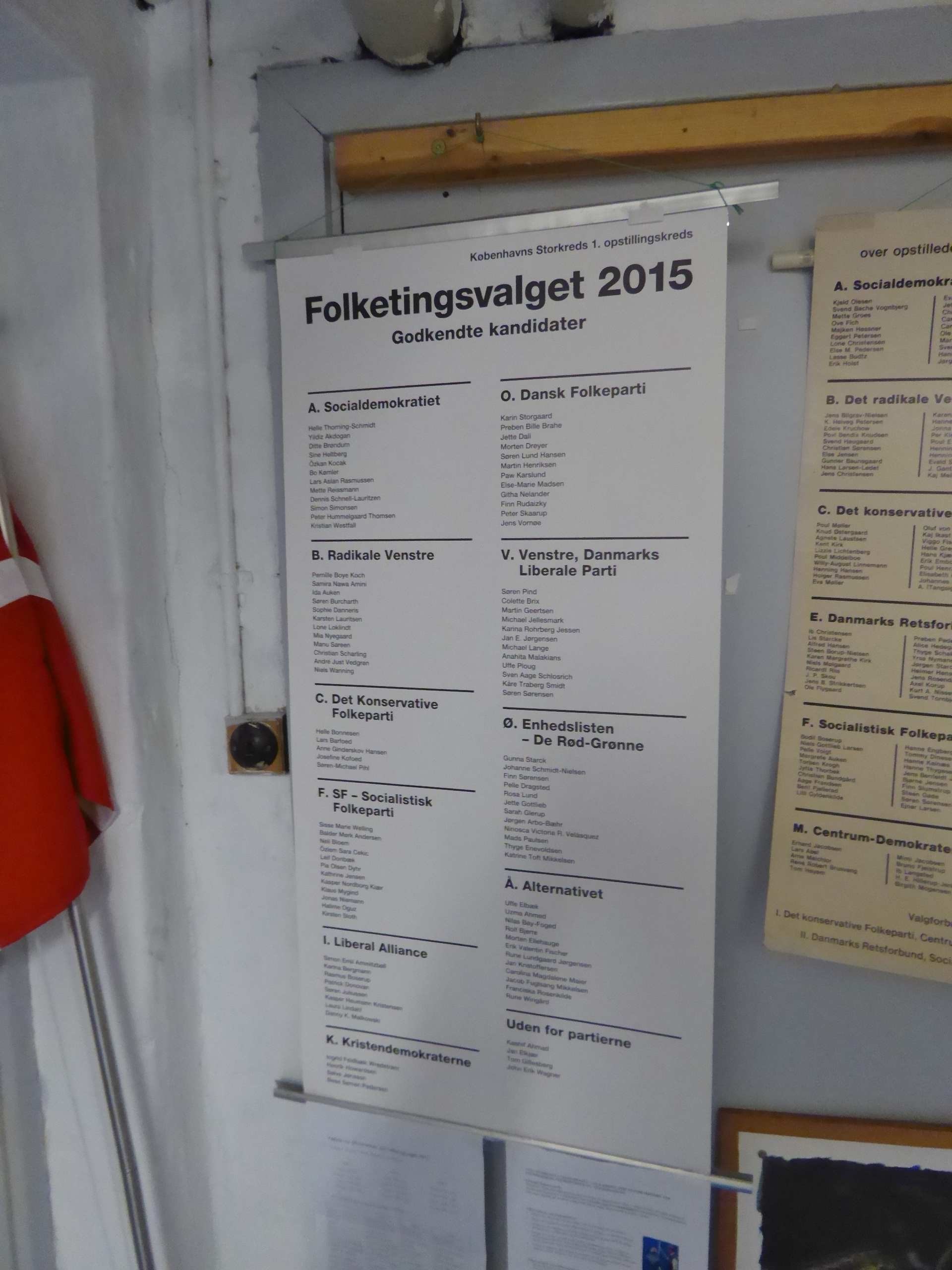 Ballot paper of the Danish parliamentary election at 18 June 2015 in Østerbro lille Museum in Copenhagen.